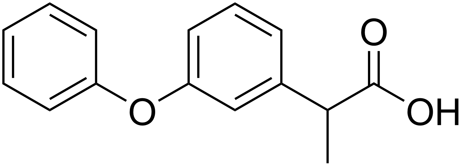 chemical structure of fenoprofen